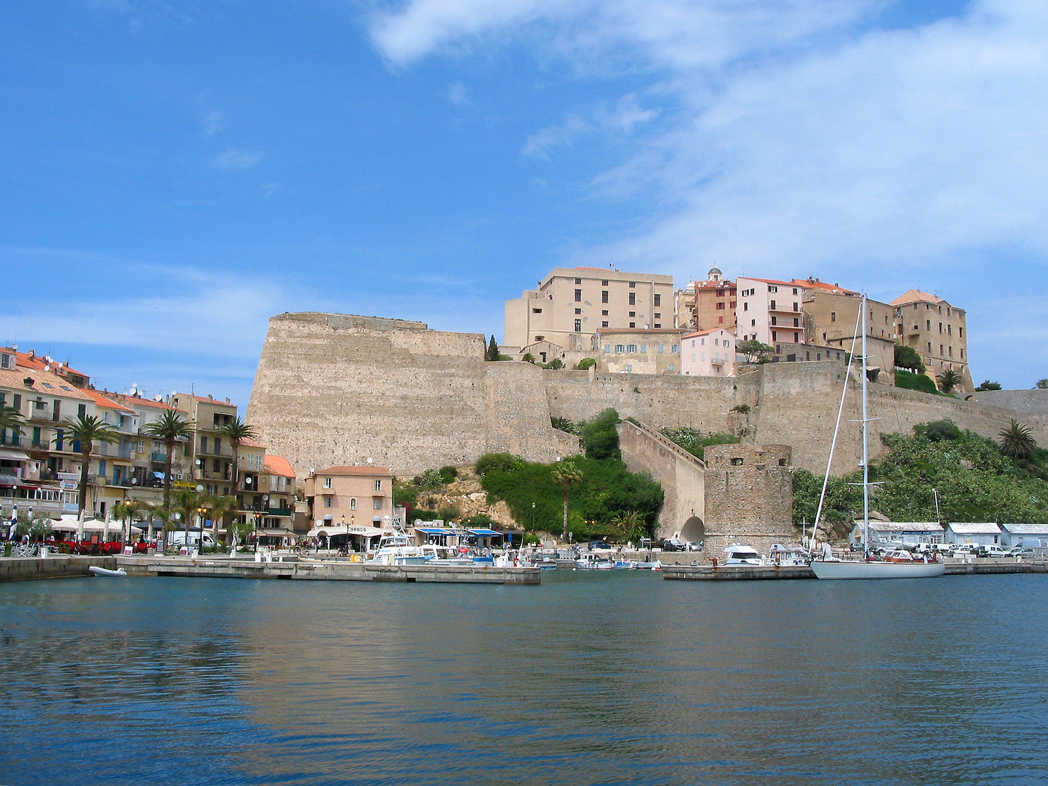 Calvi ( Haute-Corse) - France, port and citadel. Walon: Calvi (Côte-Corse) - France, li pôrt èt l’citadèle.